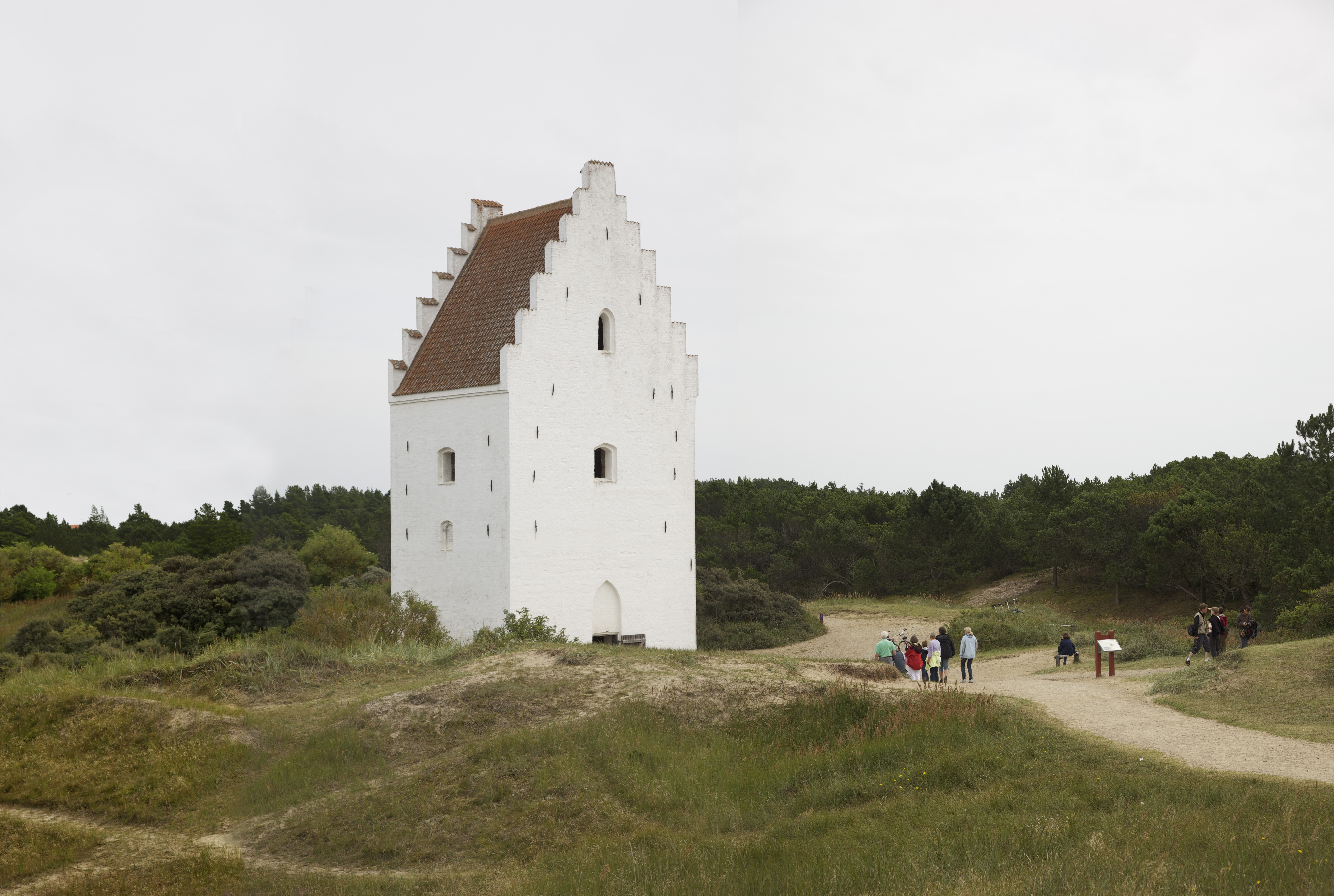 Copyright: VisitDenmark